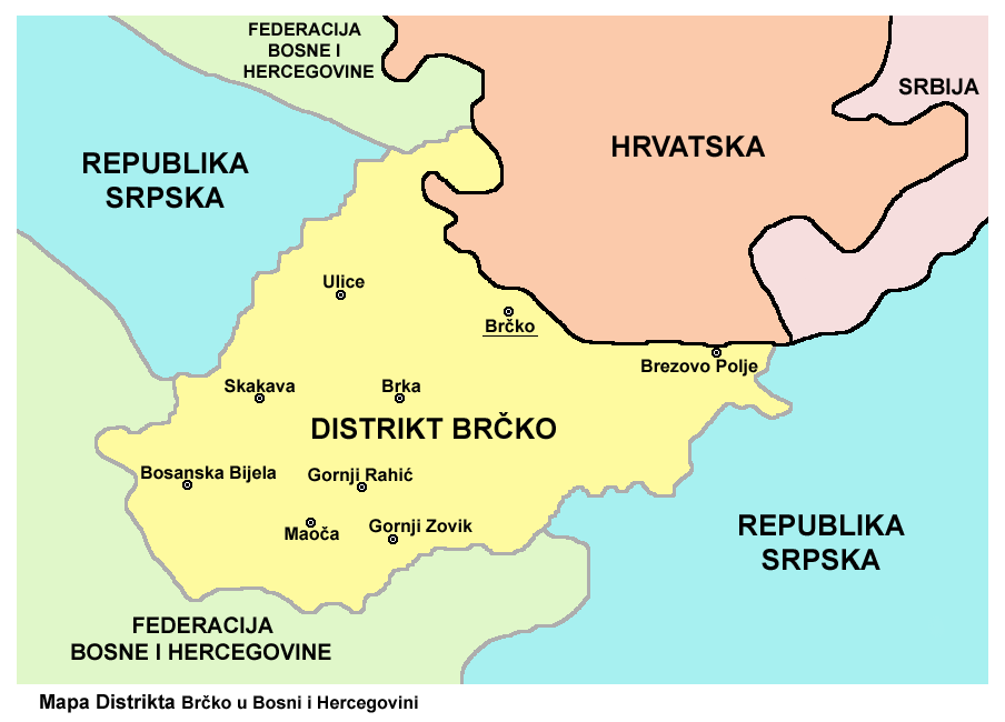 Map of Brčko District within Bosnia and Herzegovina.Srpskohrvatski / српскохрватски: Mapa Distrikta Brčko u Bosni i Hercegovini.